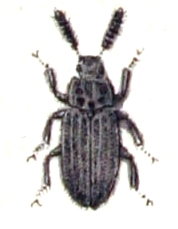 Orthocerus clavicornis, from Calwer's Käferbuch, Table 14, Picture 22. Taxonomy was updated to 2008, using mostly the sites Fauna Europaea and BioLib. Please contact Sarefo if the determination is wrong!